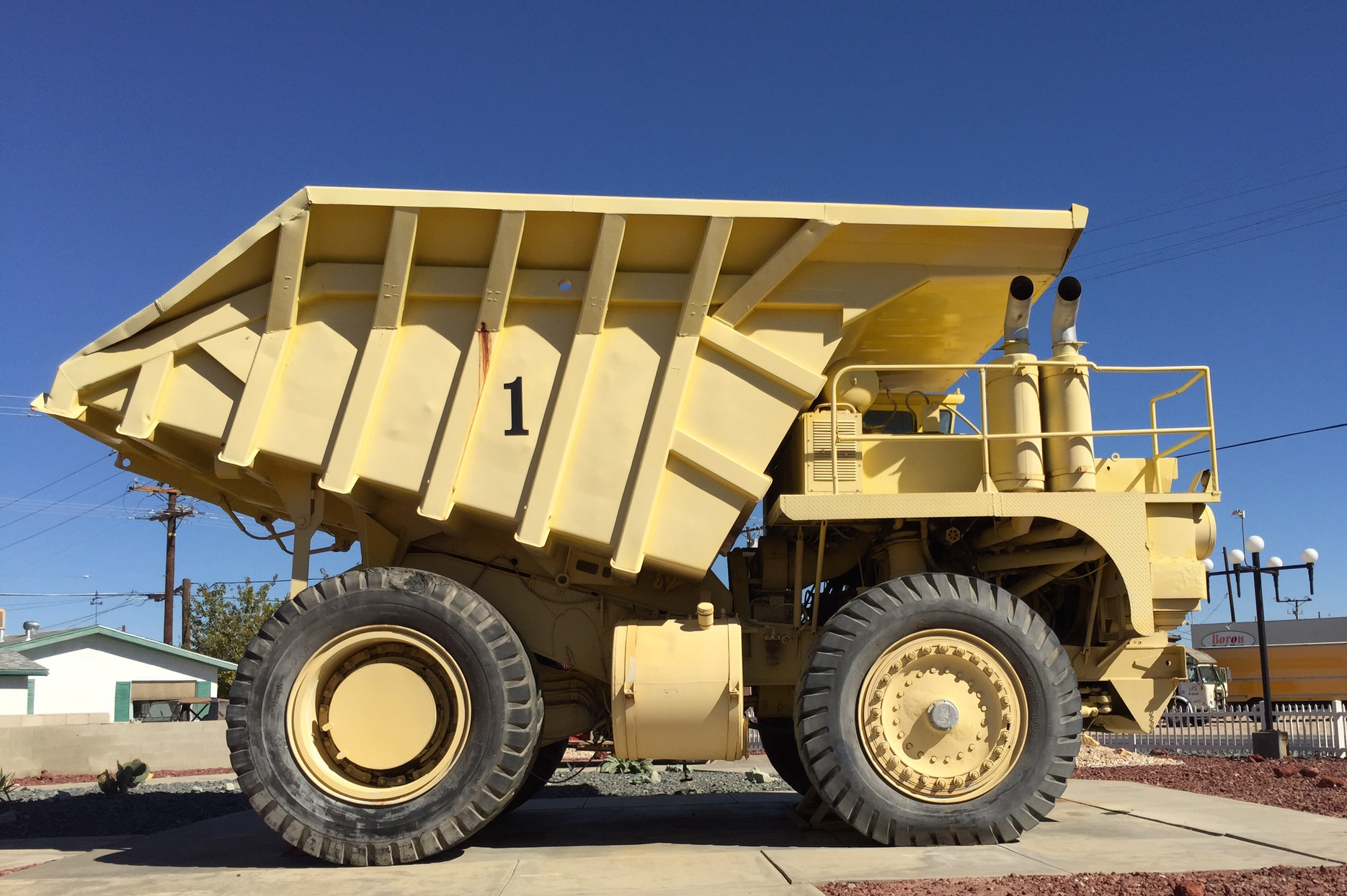 Boron Ore Lectra Haul truck in Boron CA. Note soft front tire.